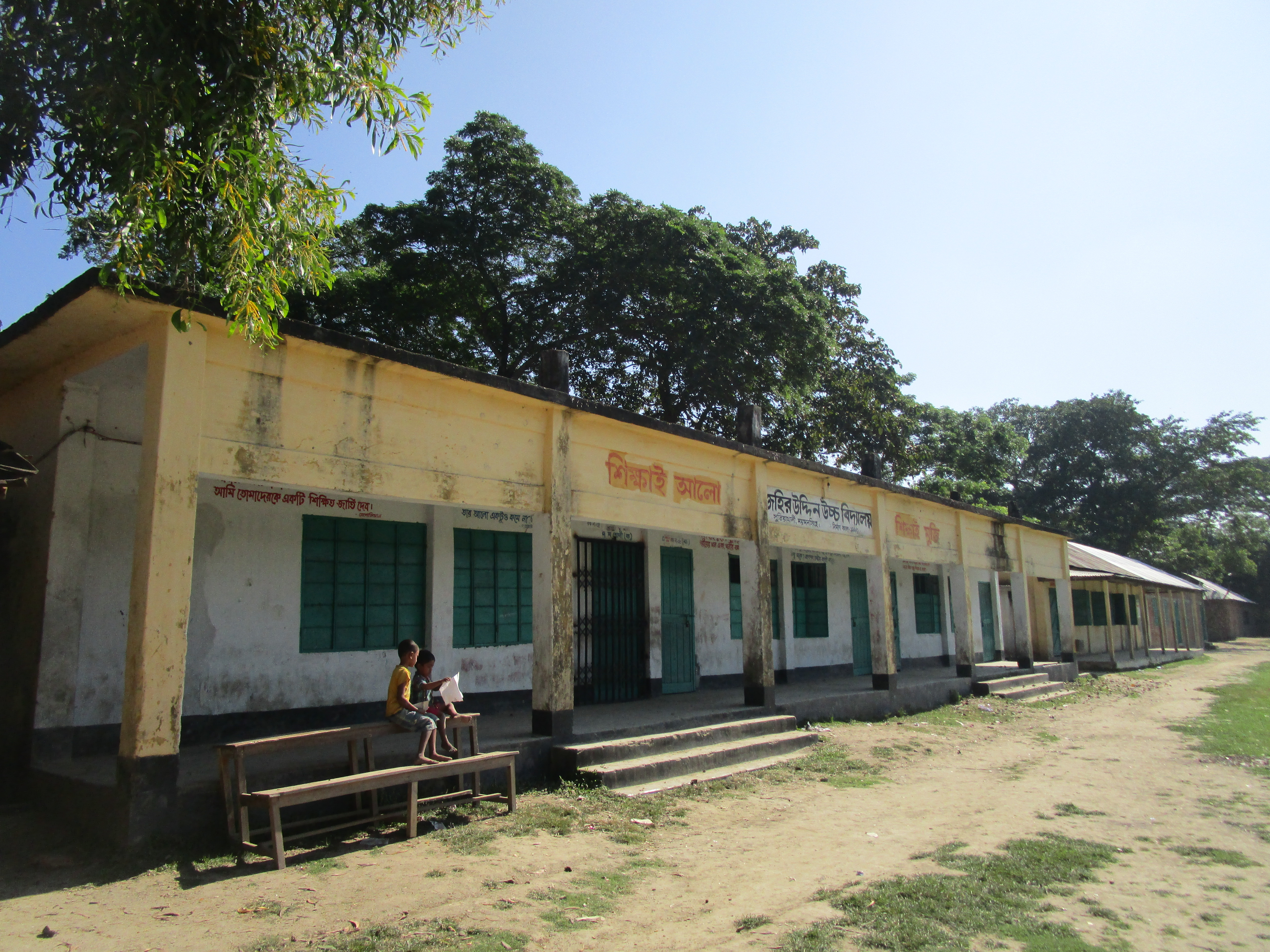 The buildings of Jahiruddin High School at Sutiakhali.